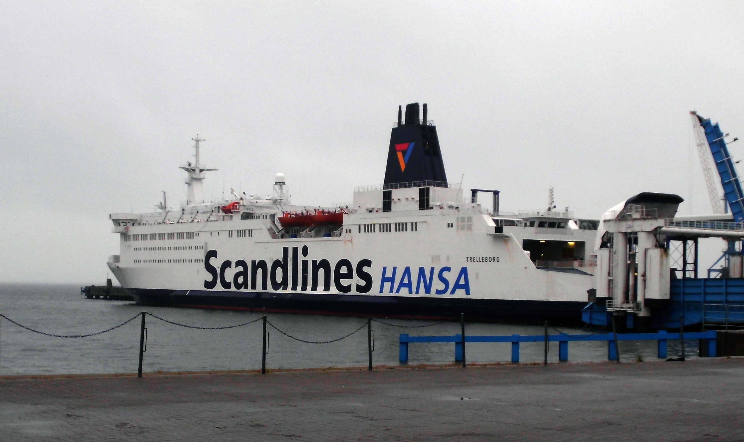 Fährschiff Trelleborg im Fährhafen Sassnitz 2011